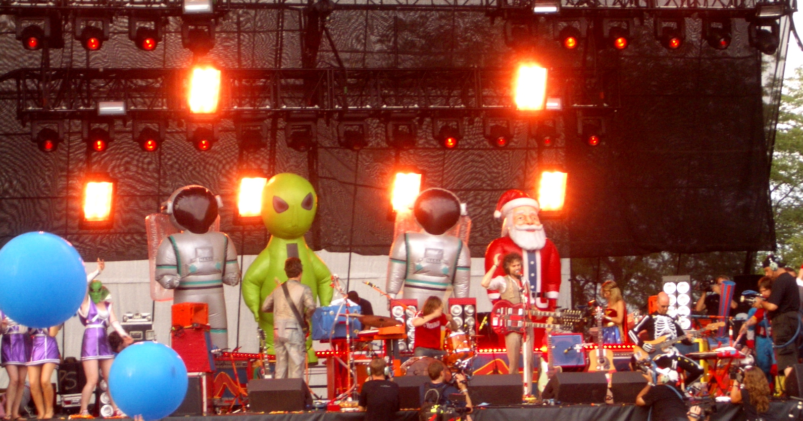 The Flaming Lips, Lollapalooza 2006, Grant Park in Chicago, IL.